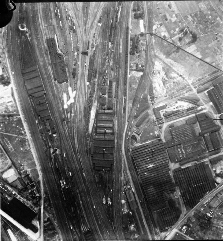 Royal Air Force Bomber Command, 1939-1941. Bombs from a Bristol Blenheim Mark IV of No. 2 Group fall over the junction of the main lines from Munster and Hamburg to Dortmund, in the marshalling yard at Hamm, Germany, during the first RAF raid on the city.